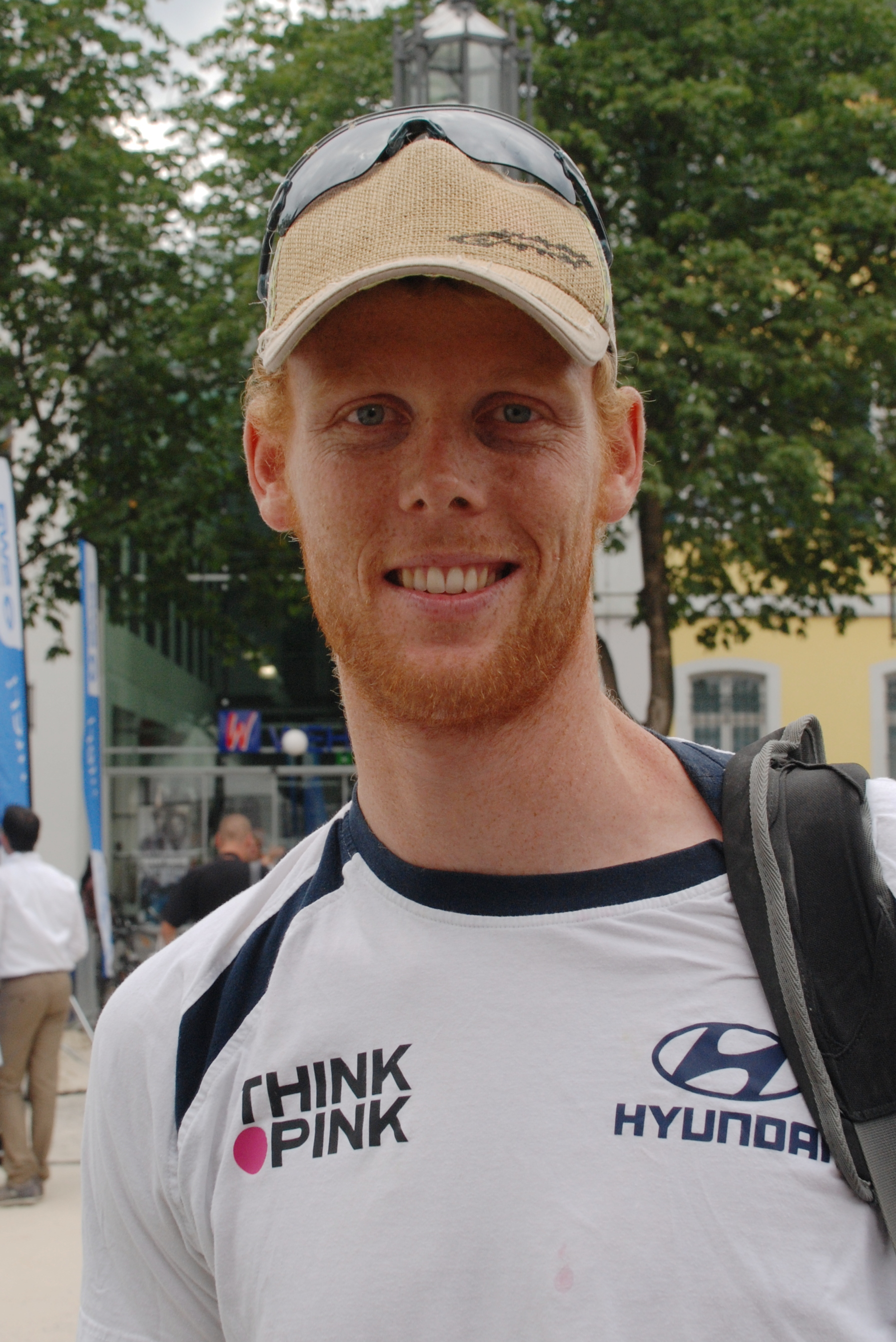 The German beach volleyball player Jonas Reckermann.